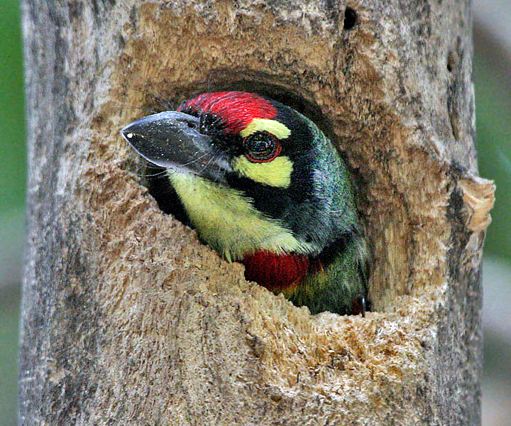 Coppersmith Barbet Megalaima haemacephala in Kolkata, West Bengal, India.